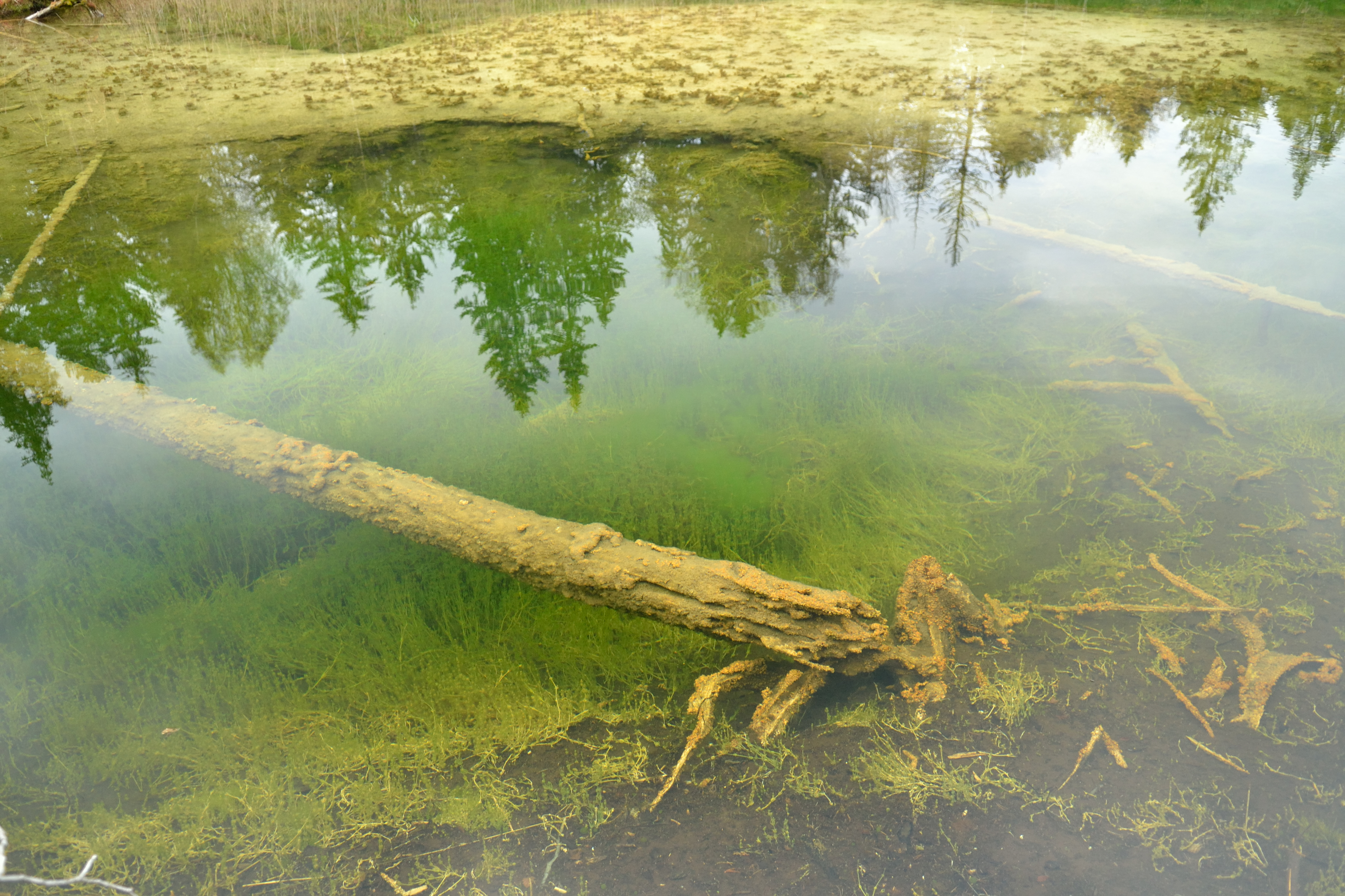 Aegviidu Blue Springs